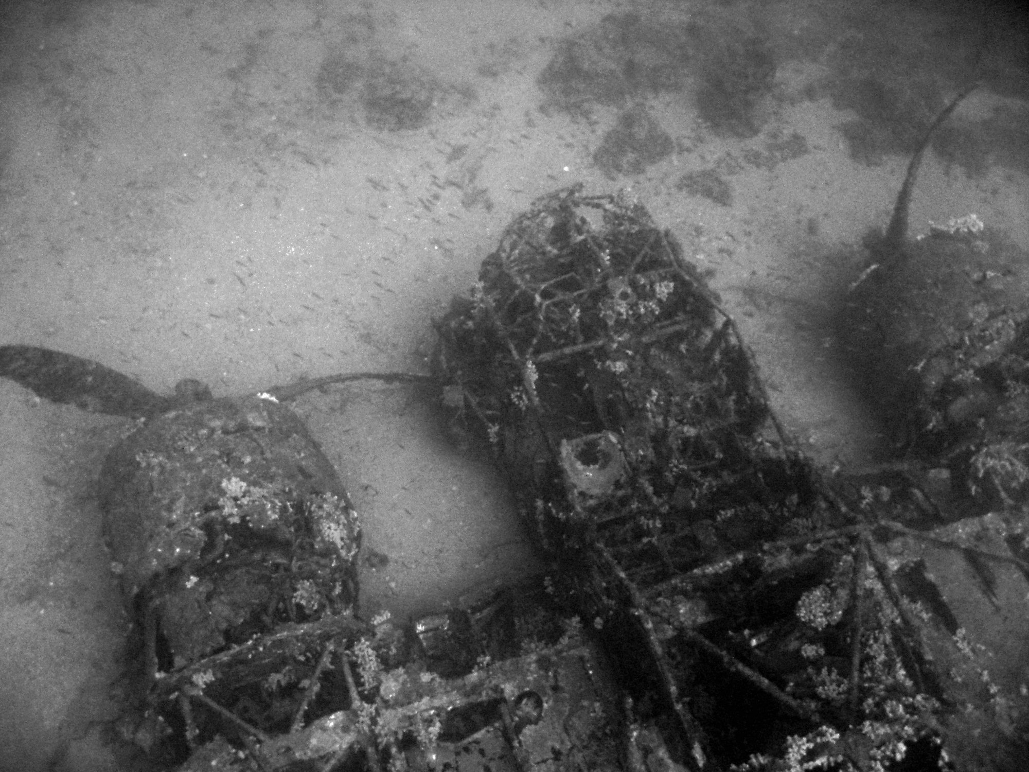 Fiat B.R.20 wreck on a 48m deep seabed in front of Santo Stefano al Mare, Liguria, Italy.